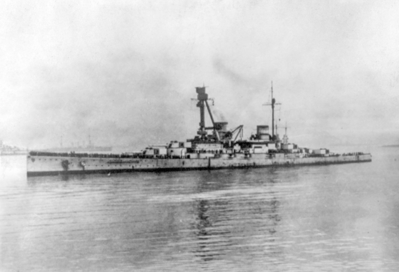 The German battlecruiser SMS Derfflinger interned at Scapa Flow, Scotland, UK, in 1919.